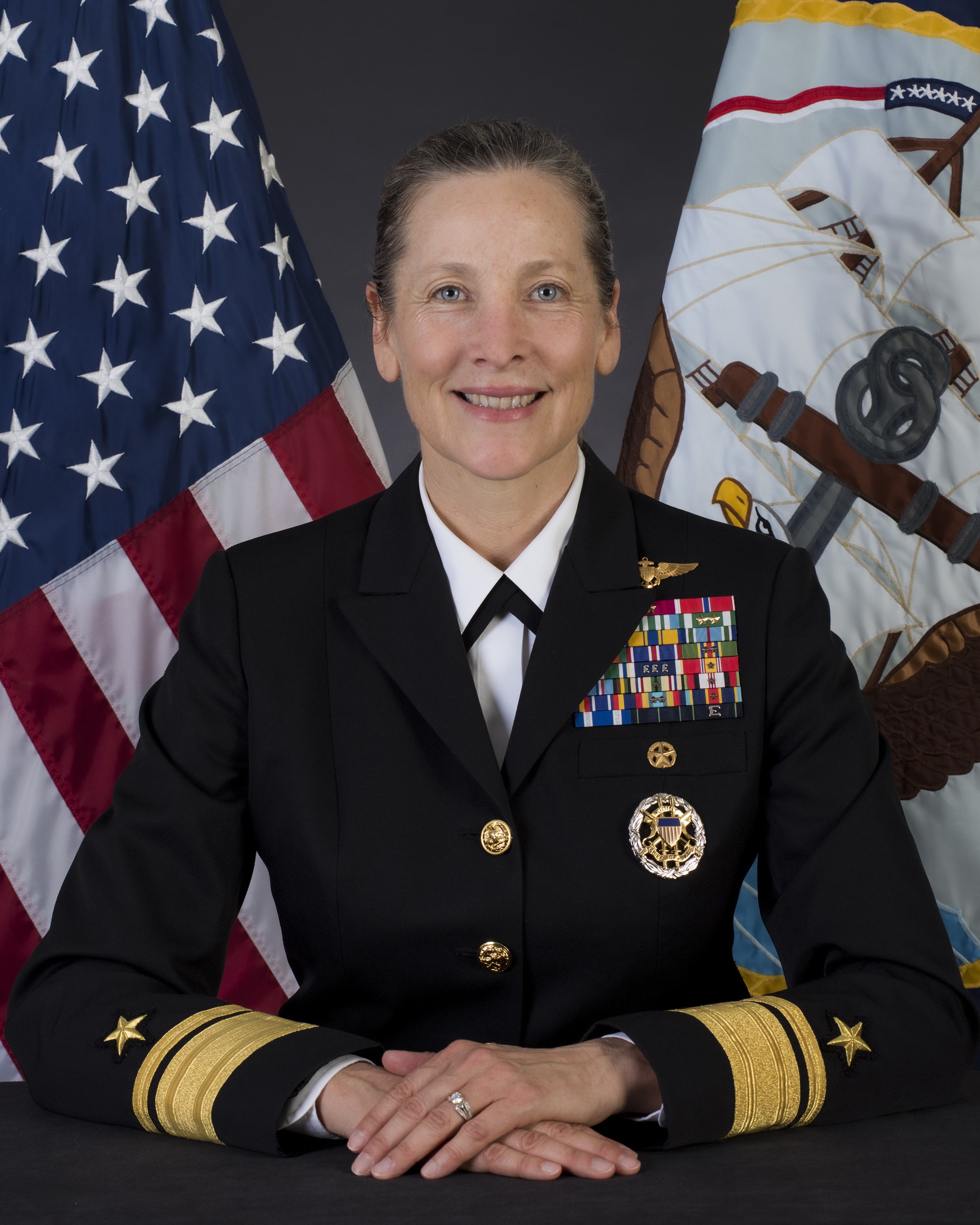 Rear Adm. Shoshana S. Chatfield, Ed.D.